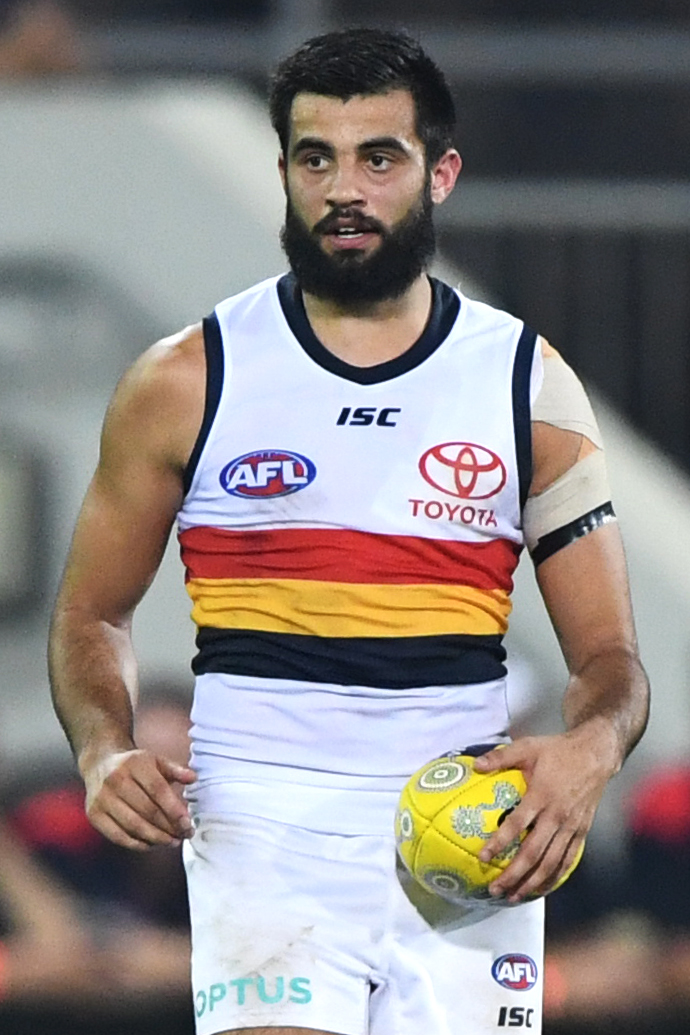 Wayne Milera of Adelaide during the 2019 AFL round 11 match between Melbourne and Adelaide at TIO Stadium on Saturday, 1 June 2019 in Darwin, Northern Territory.